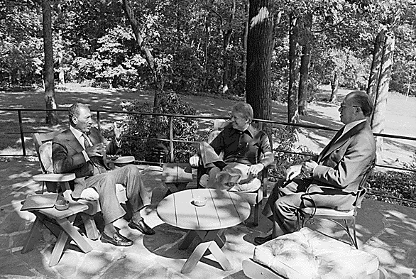 Anwar Sadat, Jimmy Carter and Menahem Begin meet on the Aspen Cabin patio at Camp David., 09/06/1978